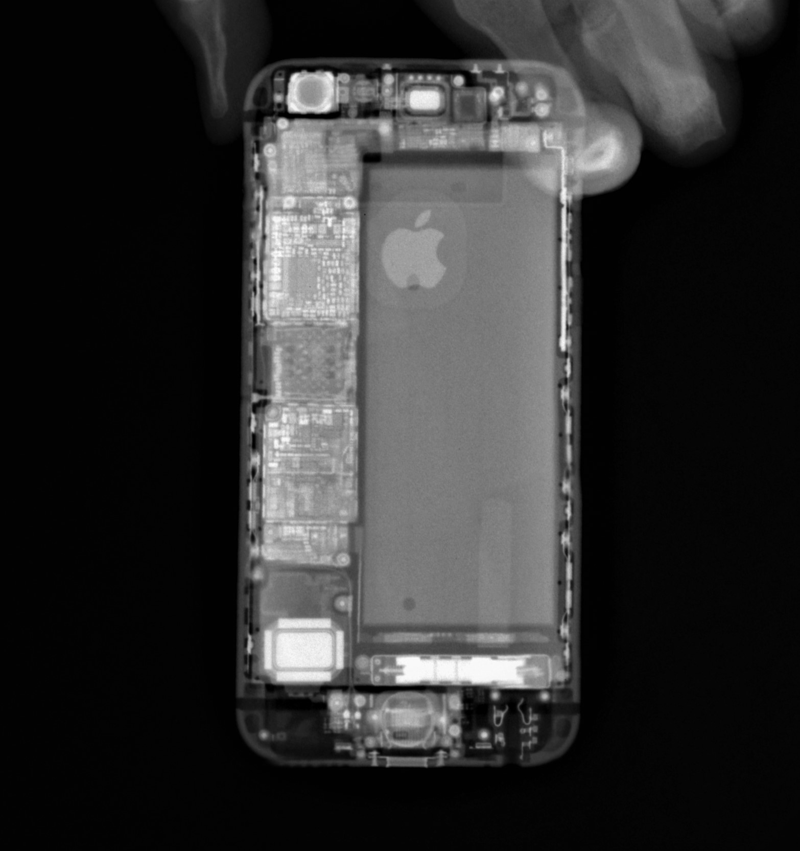 iphone6S_X-RAY